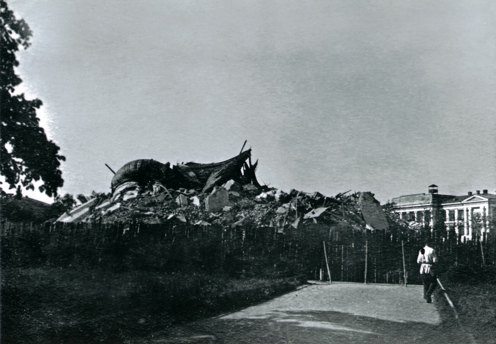 Tsarskoye Selo (Russia), St. Catherine cathedral in Tsarskoye Selo after demolition.